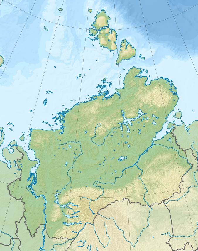 Relief map of Taymyrsky Dolgano-Nenetsky District. Equidistant conic projection. Longitude and latitude of the projection center: 96° / 73° Two standard parallels: 66° / 74°